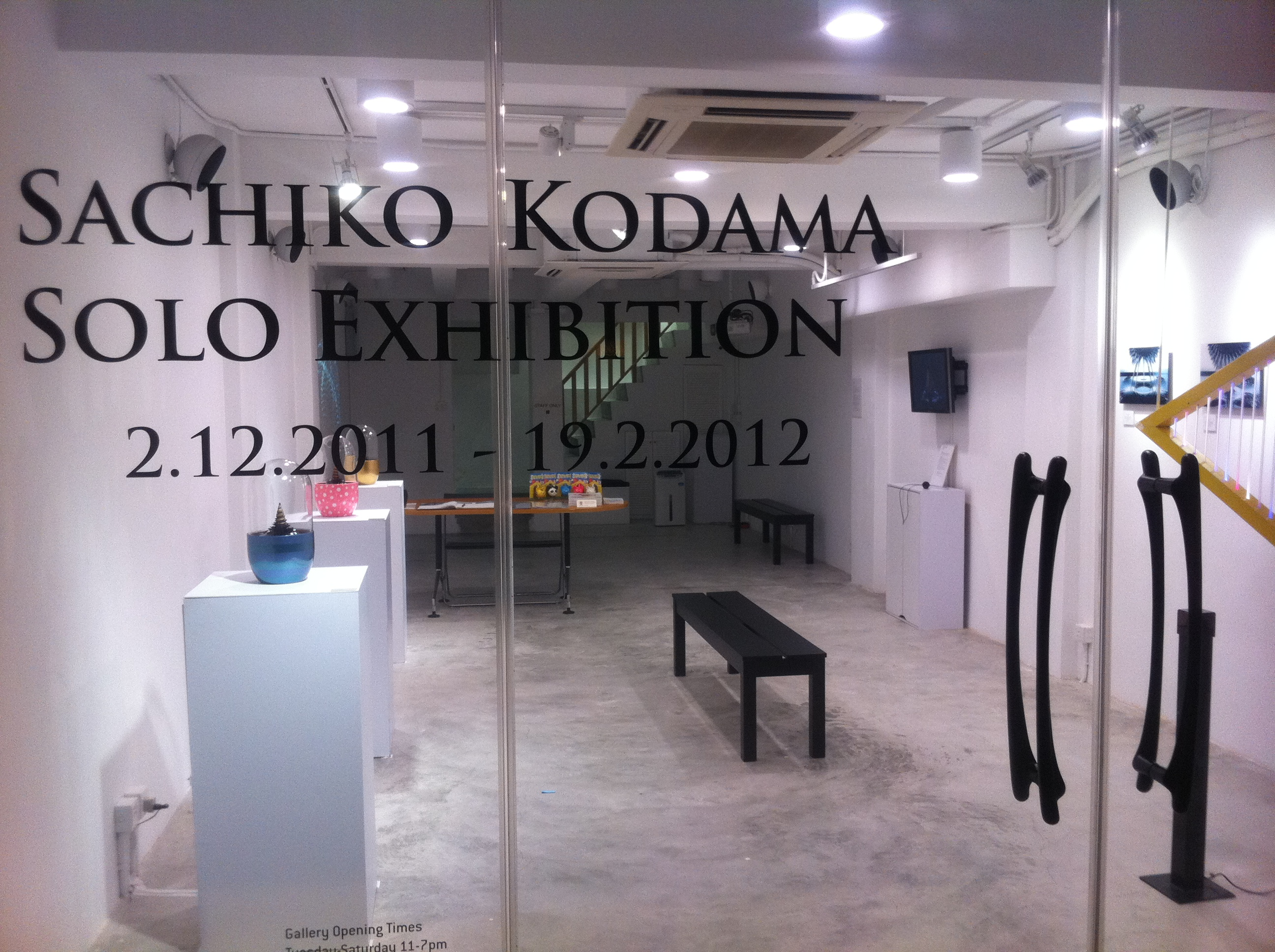 中文（香港）: Input/Output Gallery, 上環 Tai Ping Shan Street, Sheung Wan 太平山街